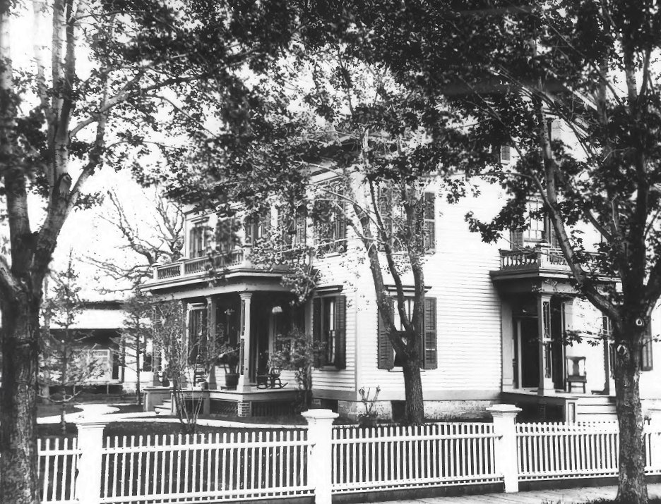 Harvey Williamson House, 304 Oak Street, Lake City, Minnesota, USA, photographed circa 1900. Viewed from the north.